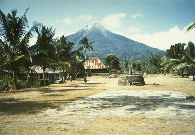 Gunung Ebulobo (also known as Amburombu or Keo Peak) towers above the village of Boa Wae, located below the NW flank of the volcano. Ebulobo is a symmetrical 2124-m-high stratovolcano in central Flores Island with a flat-topped summit lava dome. Historical eruptions, recorded since 1830, include lava emission down the north flank and explosive eruptions from the summit crater.